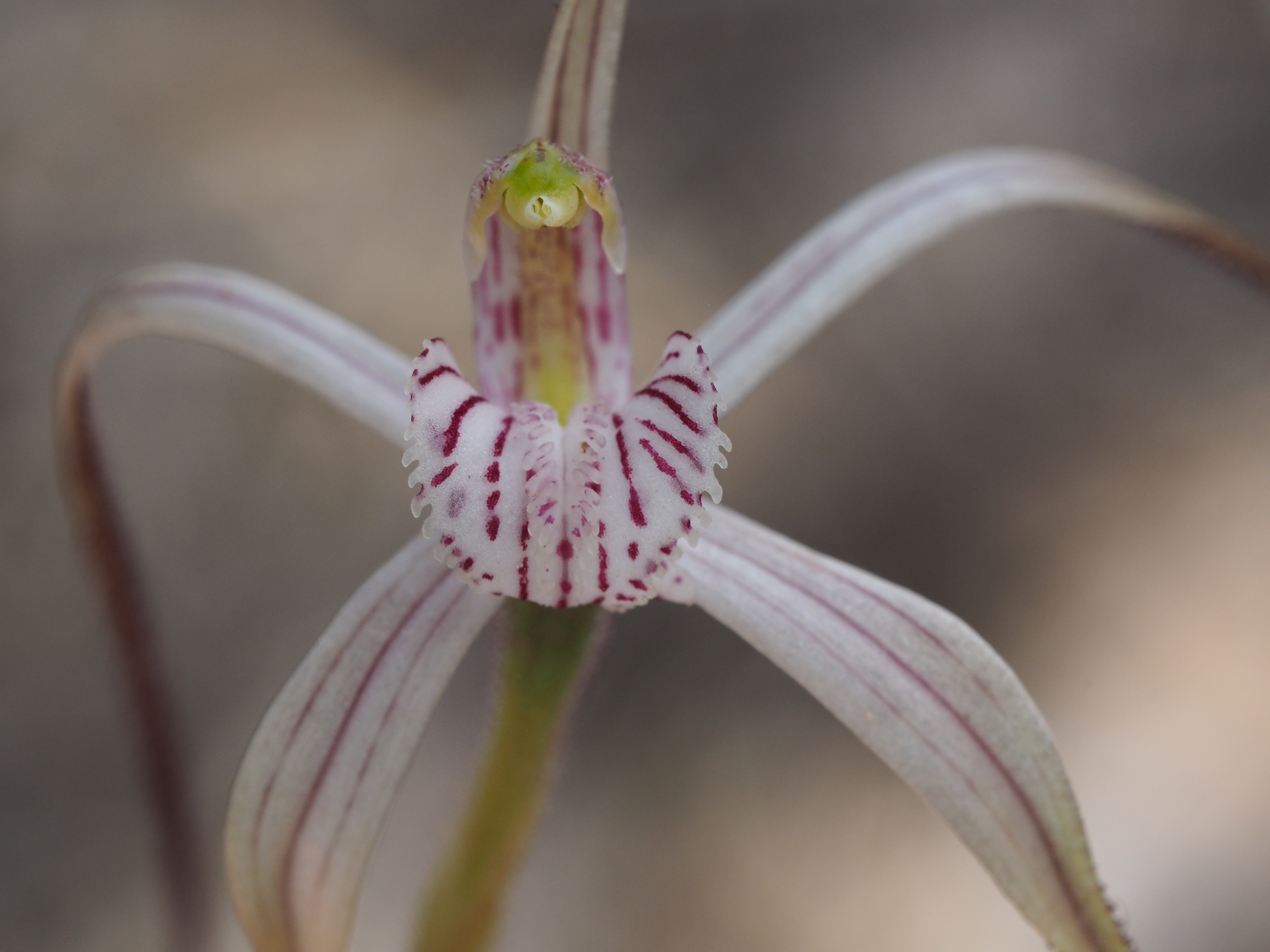 Labellum detail of Caladenia vulgata. Orchid growing near Coorow in Western Australia.